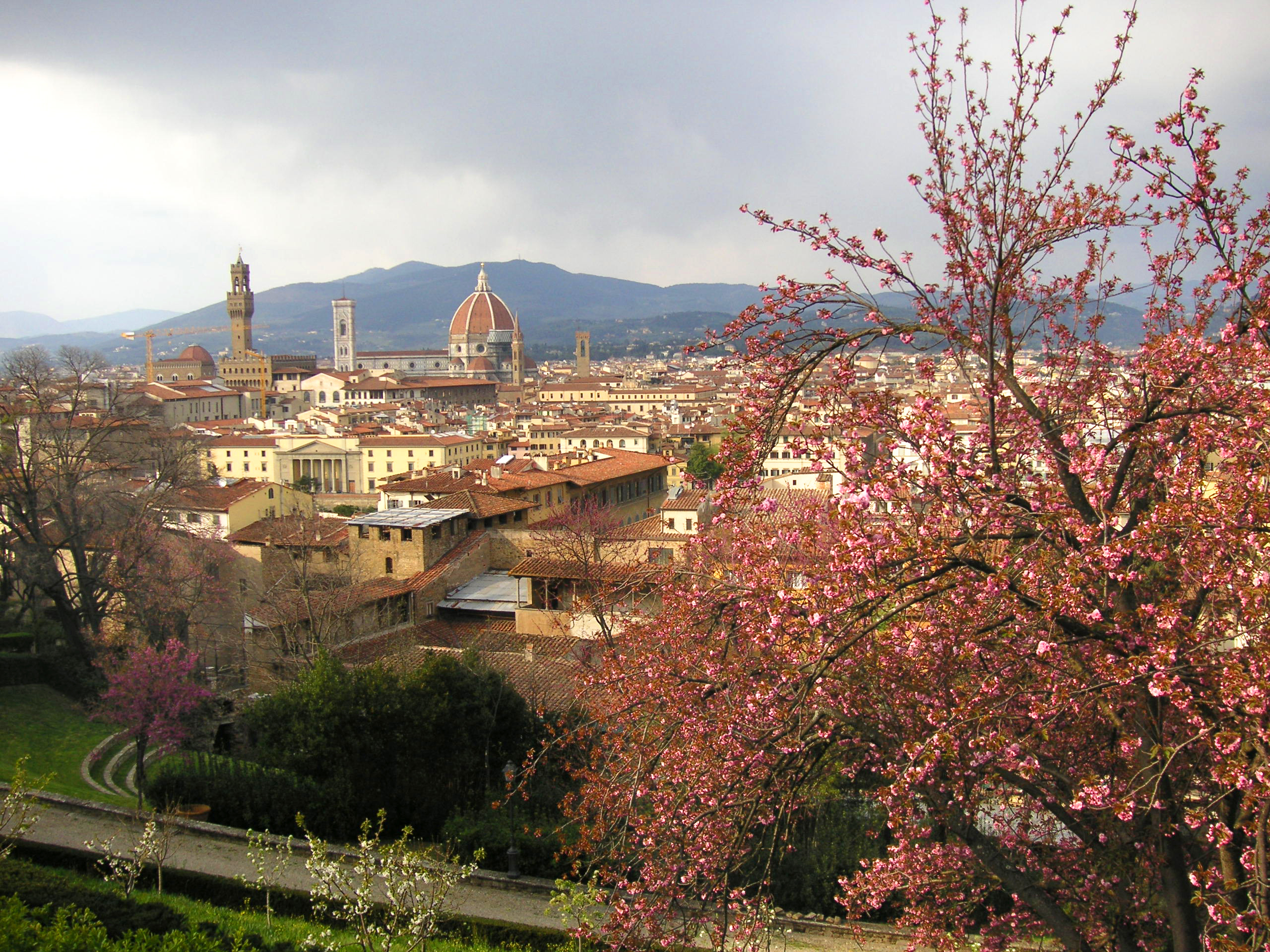 View to Florence, Italy